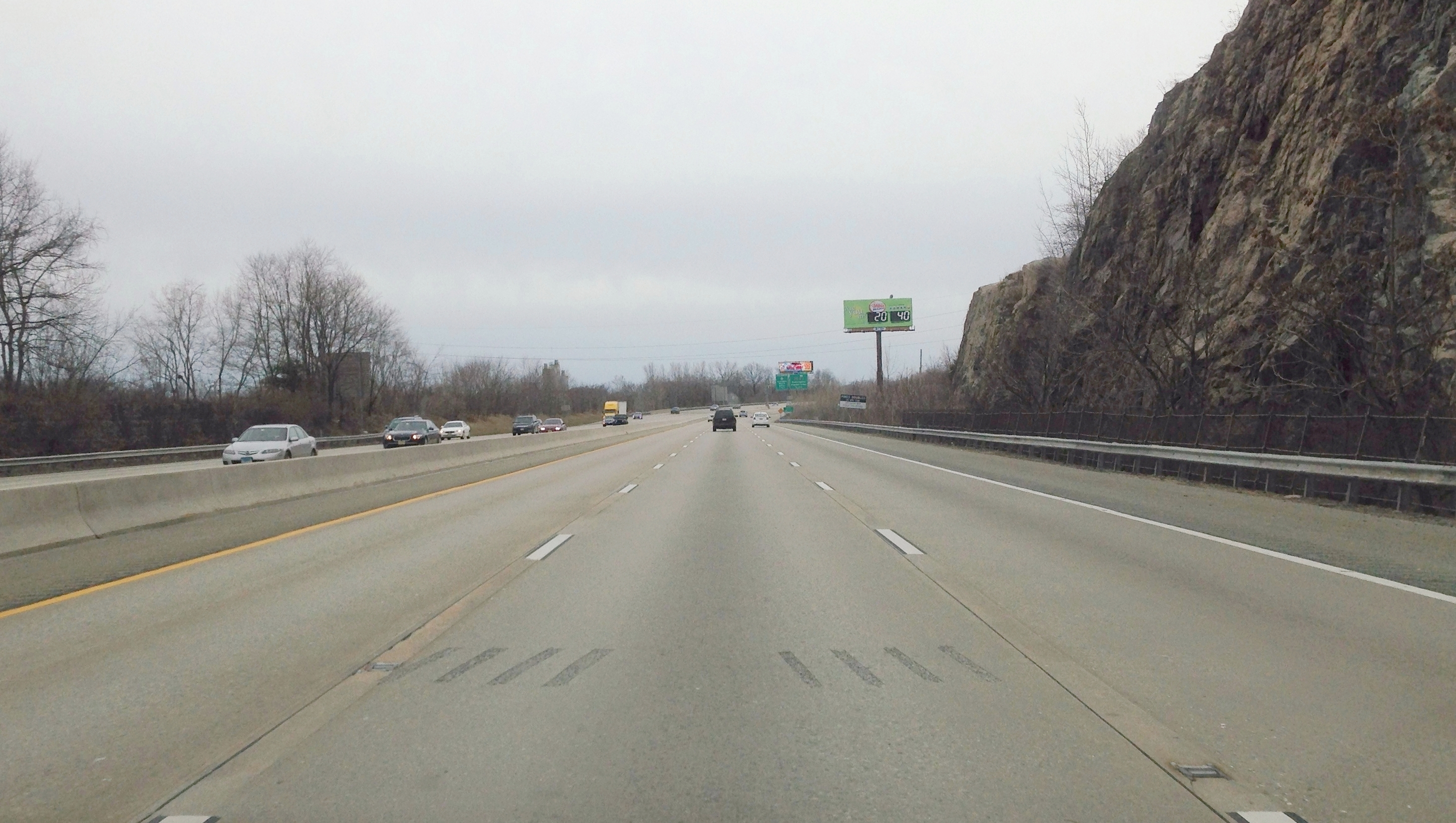 The marks show the dowel bar retrofit on I-287 in New Jersey